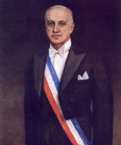 Jorge Alessandri Rodríguez, President of Chile